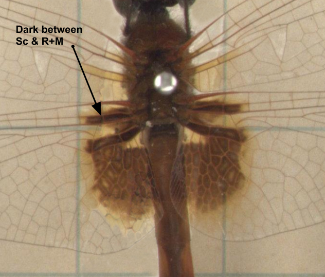 Square-spot Basker dragonfly (Aethriamanta circumsignata) cropped, highlighting the "square" spot at the base of the hindwings.